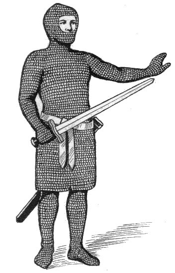 line art drawing of a coat of mail.